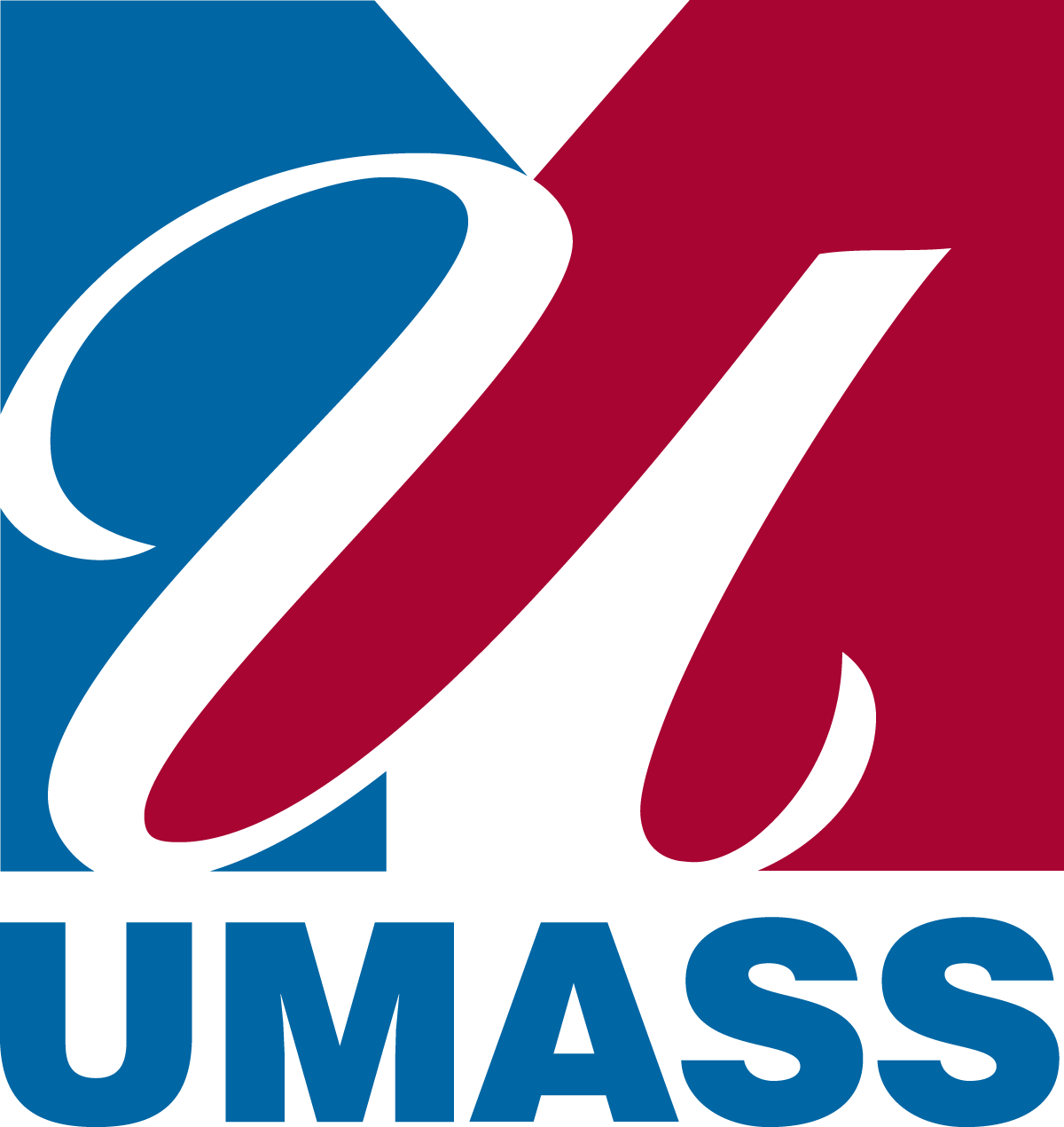 University of Massachusetts Glyph